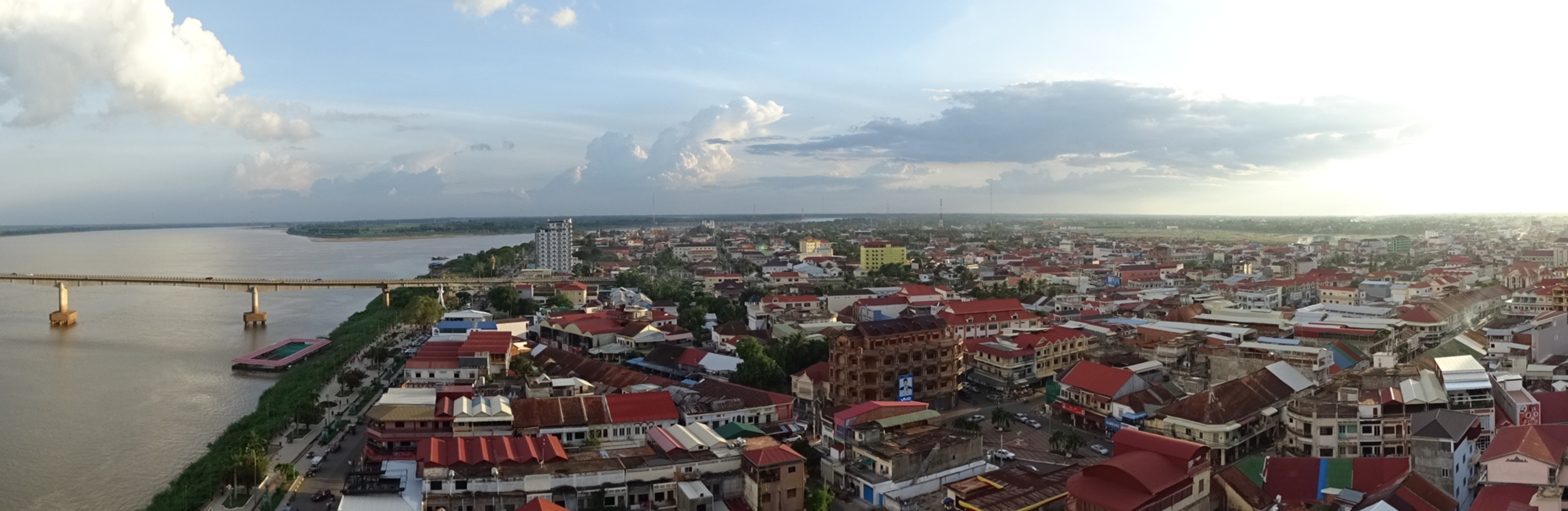 Panorama of View over Town at Sunset - From LBN Asian Hotel - Kampong Cham - Cambodia